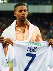 Jeremain Lens